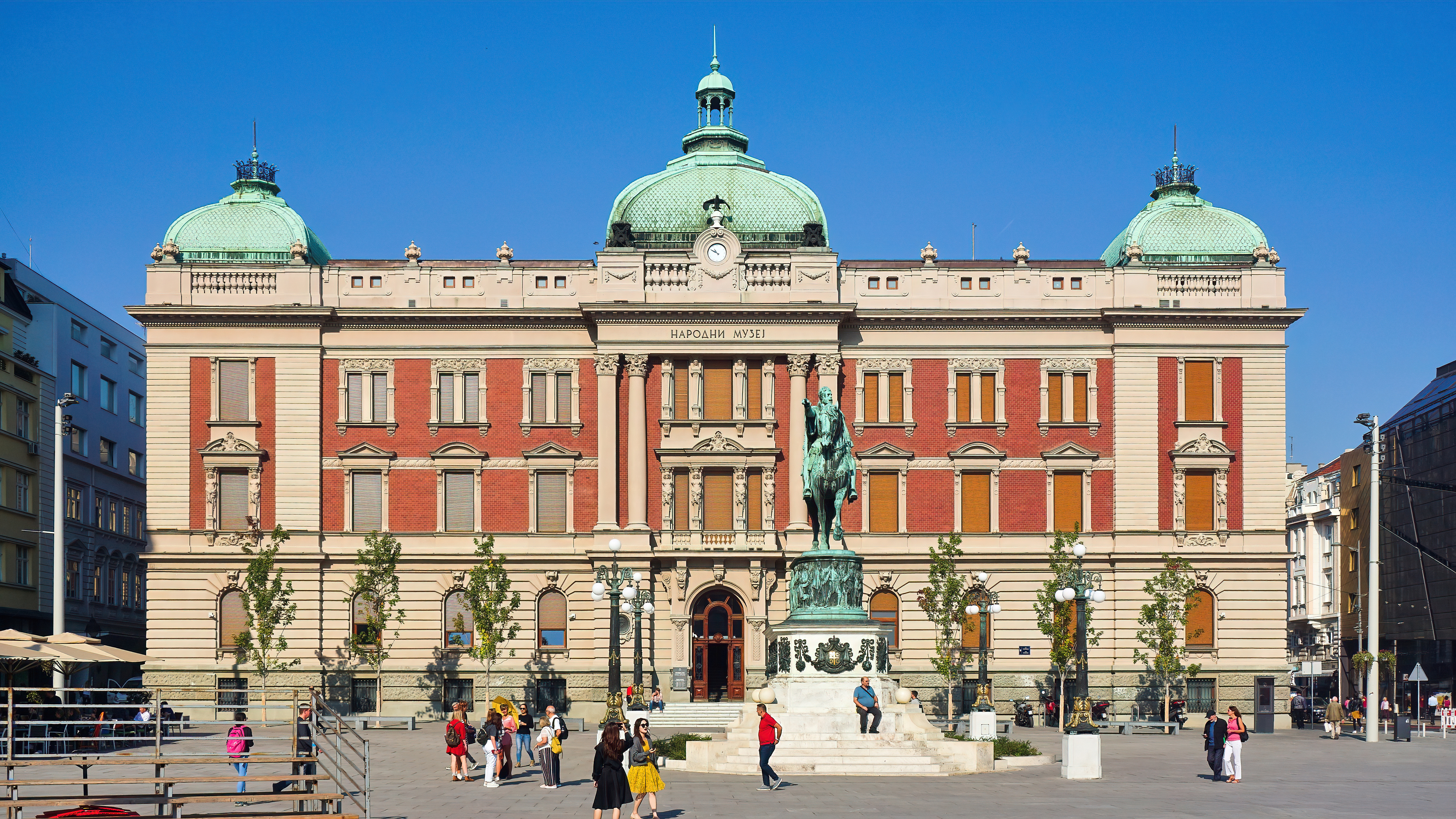 National Museum of Serbia